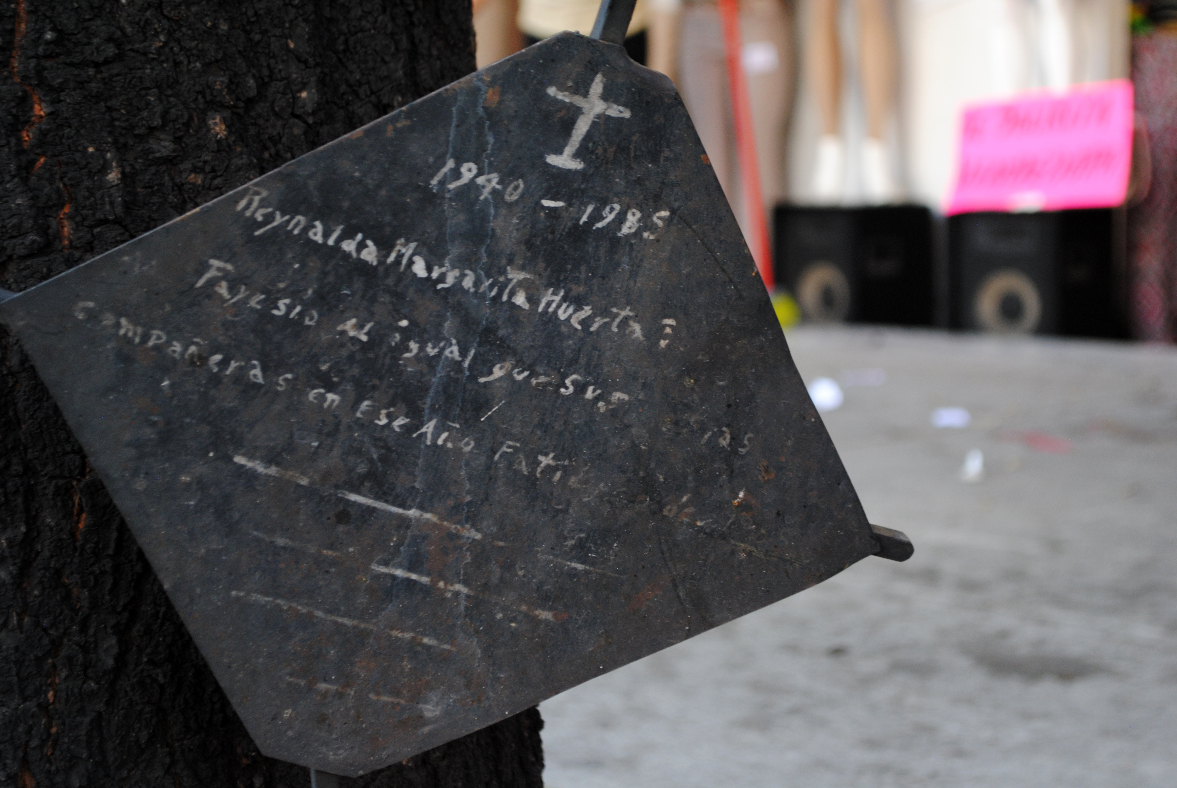 Street plaque refering the dead of a seamstress in 1985 Mexico City Earthquake, in San Antonio Abad 181. Commemorative event of the Association of Sewers and Seamstresses September 19, held on September 19, 2014, in Mexico City.